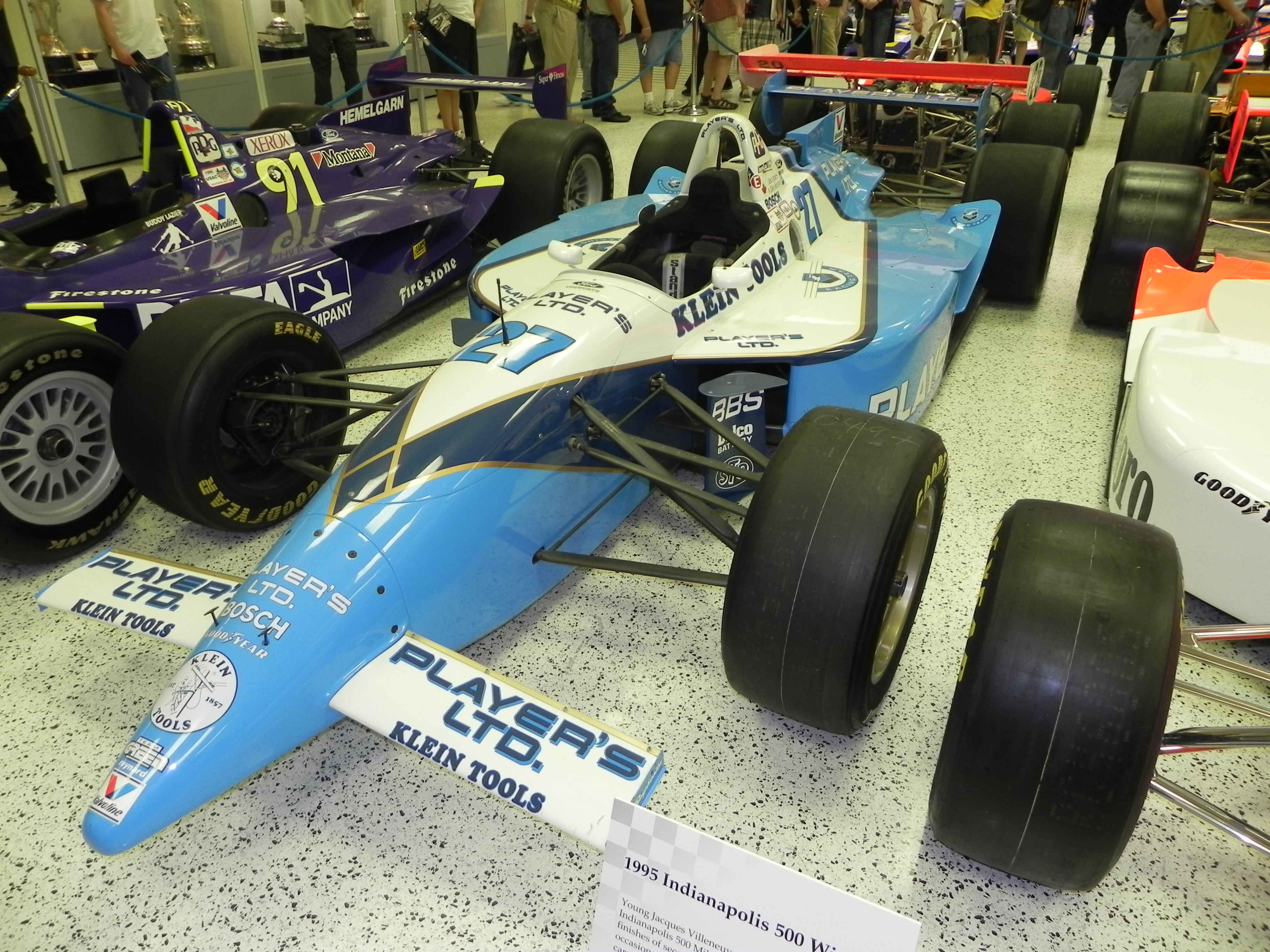 Image of the winning car of the 1995 Indianapolis 500 (Jacques Villeneuve). Photo was taken at the Indianapolis Motor Speedway Hall of Fame Museum, during the month of May 2011, at the 100th Anniversary "Ultimate Indianapolis 500 Winning Car Collection."